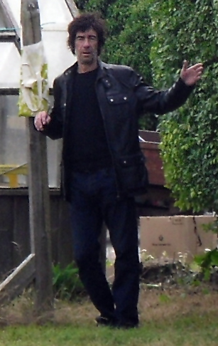 Jimmy Pursey